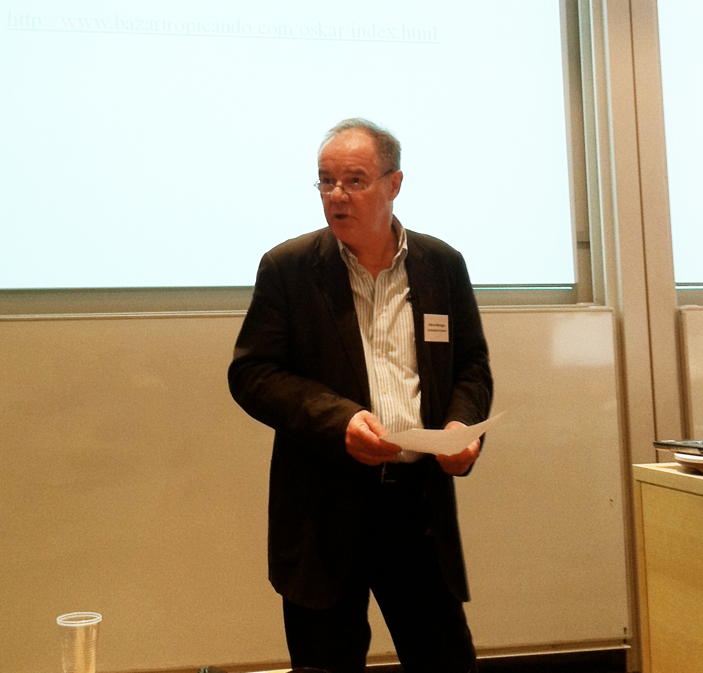 Steve Woolgar 02